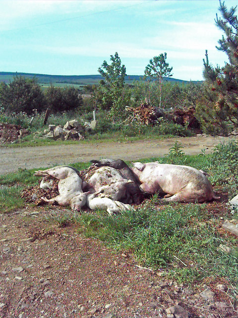 Death at Lazyfold farm This looks like a group of dead pigs awaiting pick up by the knackery. Pig farmers in particular prefer the knackery lorry not to come right up the road to where the pigs are kept as this is a way that disease can be spread.